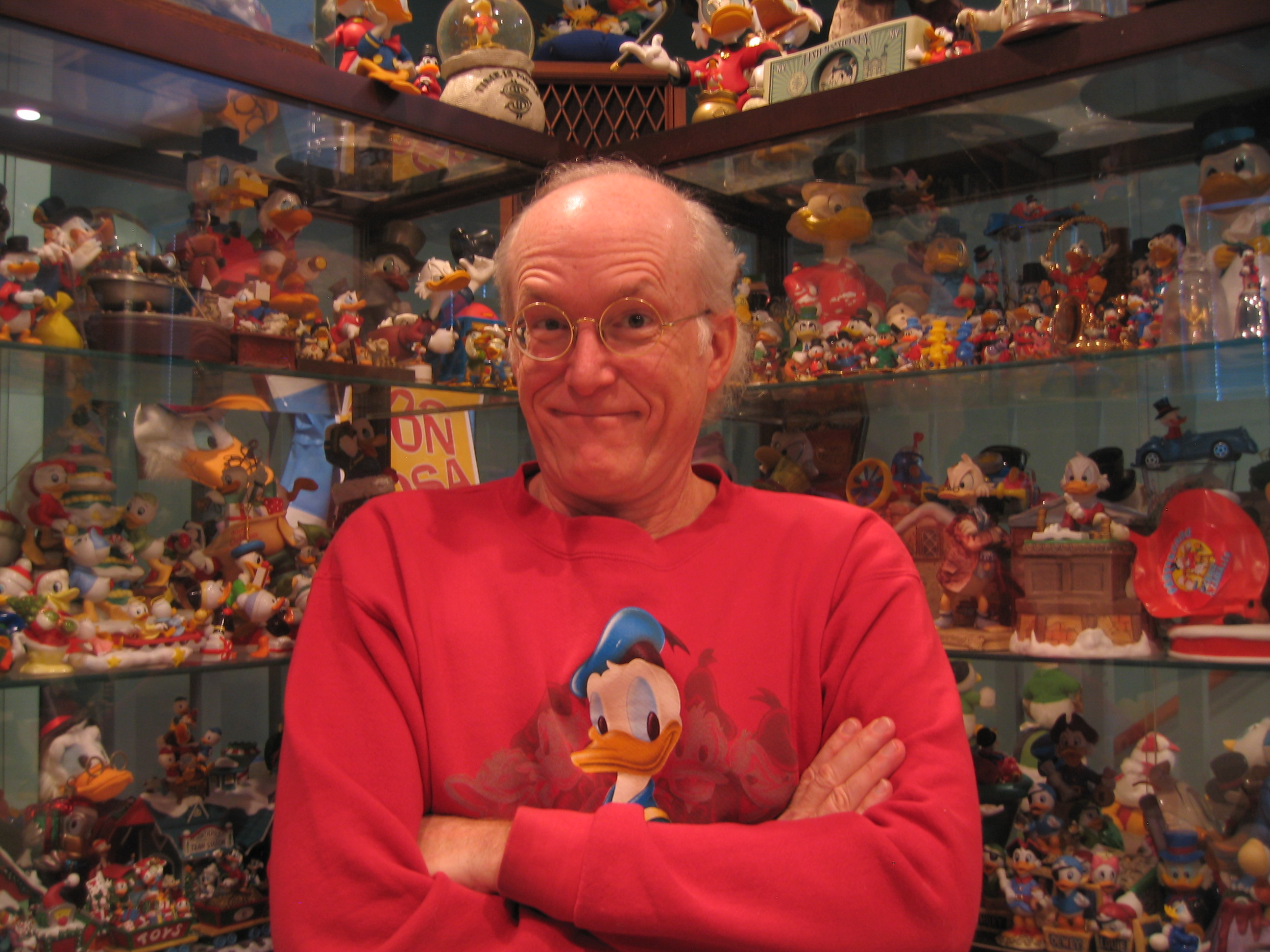 Don Rosa in his home.